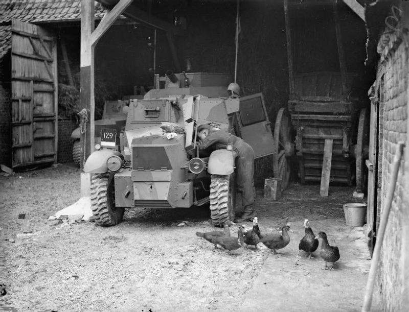 A Morris CS9 armoured car of 'C' Squadron, 12th Royal Lancers (Prince of Wales' Own) receives attention parked in a farmyard at Villiers St Simon.